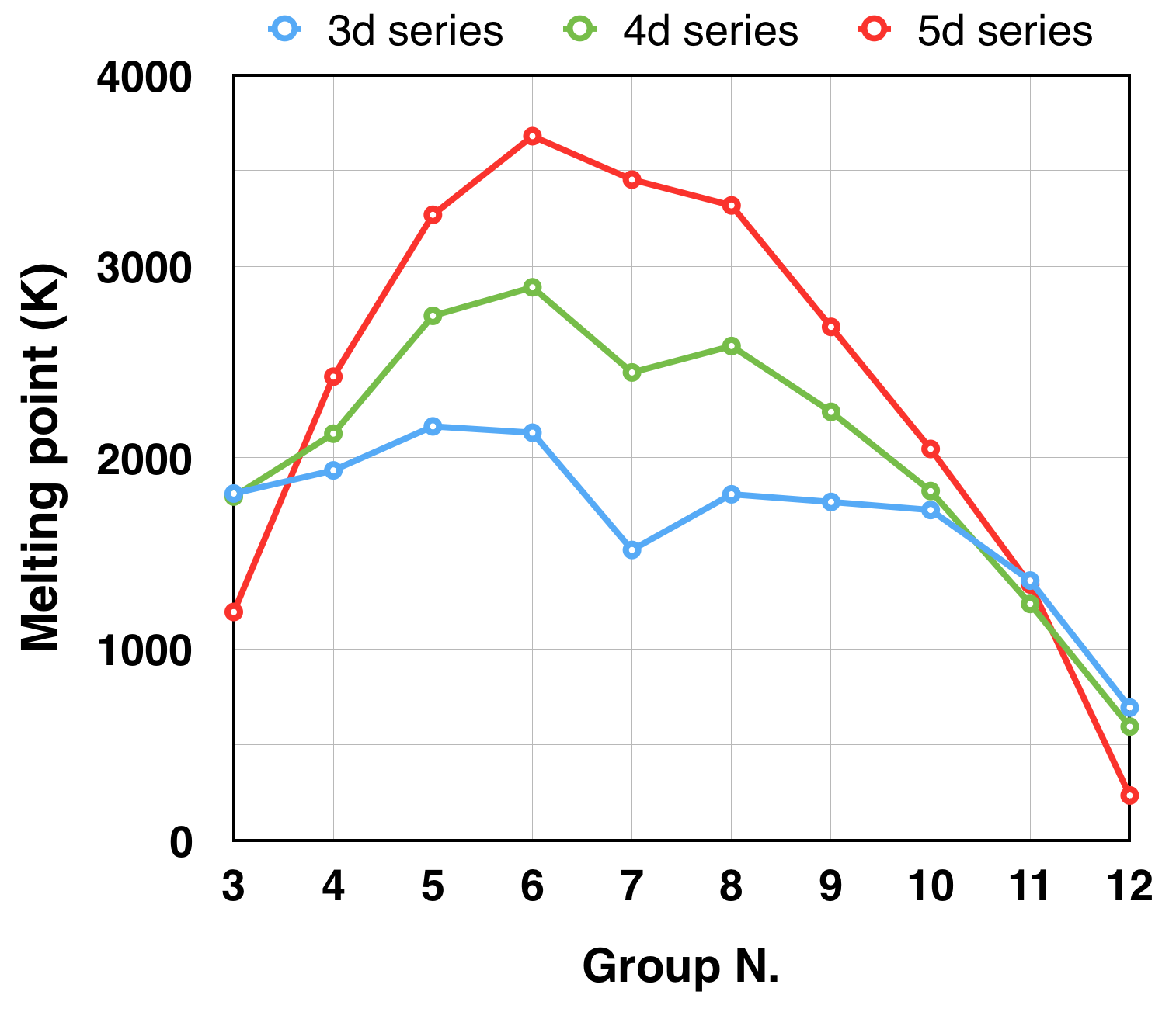 Melting point of block d elements